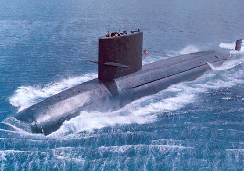 Port side view of the USS Bonefish (SS-582) in the 1980–1981 timeframe while the ship was on WESTPAC in 1981. The photo was taken by a Navy helo which the Bonefish was underway in Subic Bay, the Philippines. The personnel on the bridge in the photo are the CO CDR Chris Current and the XO LCDR Roger Kline. USN photo courtesy of . Photo i.d. & text courtesy of Jim Smith, former Bonefish (SS-582) operations officer.